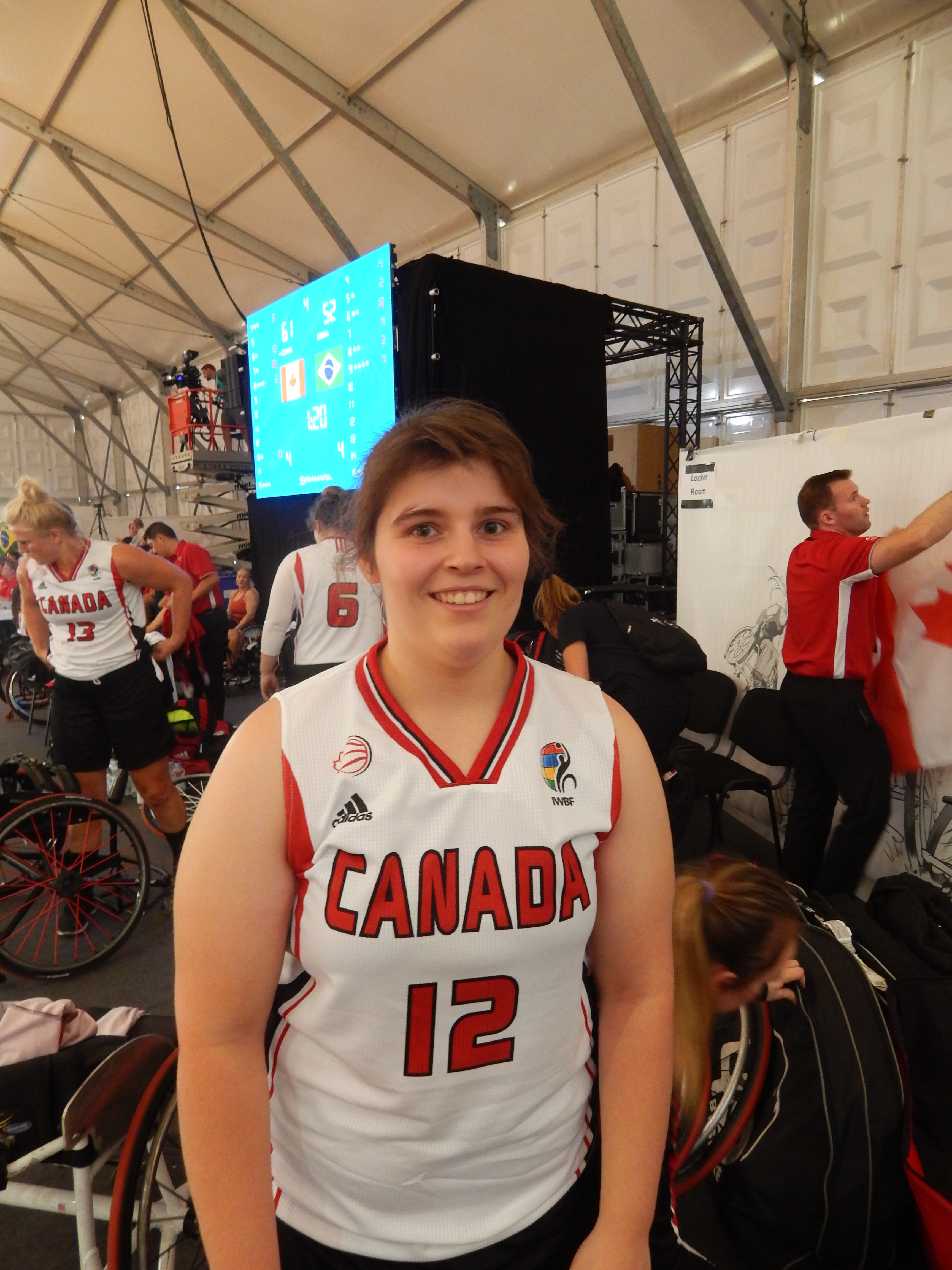 Canada No. 12 - Sandrine Berube